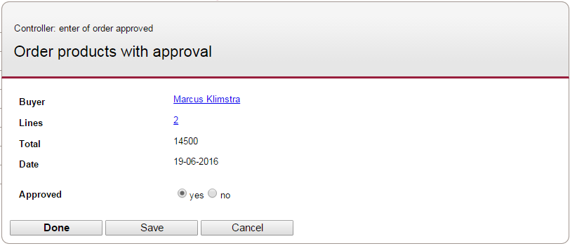 Form2 - Enter approval by controller